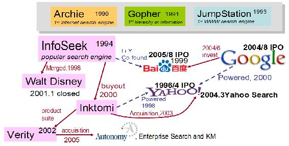 The relationship and evolution in Internet Search Business